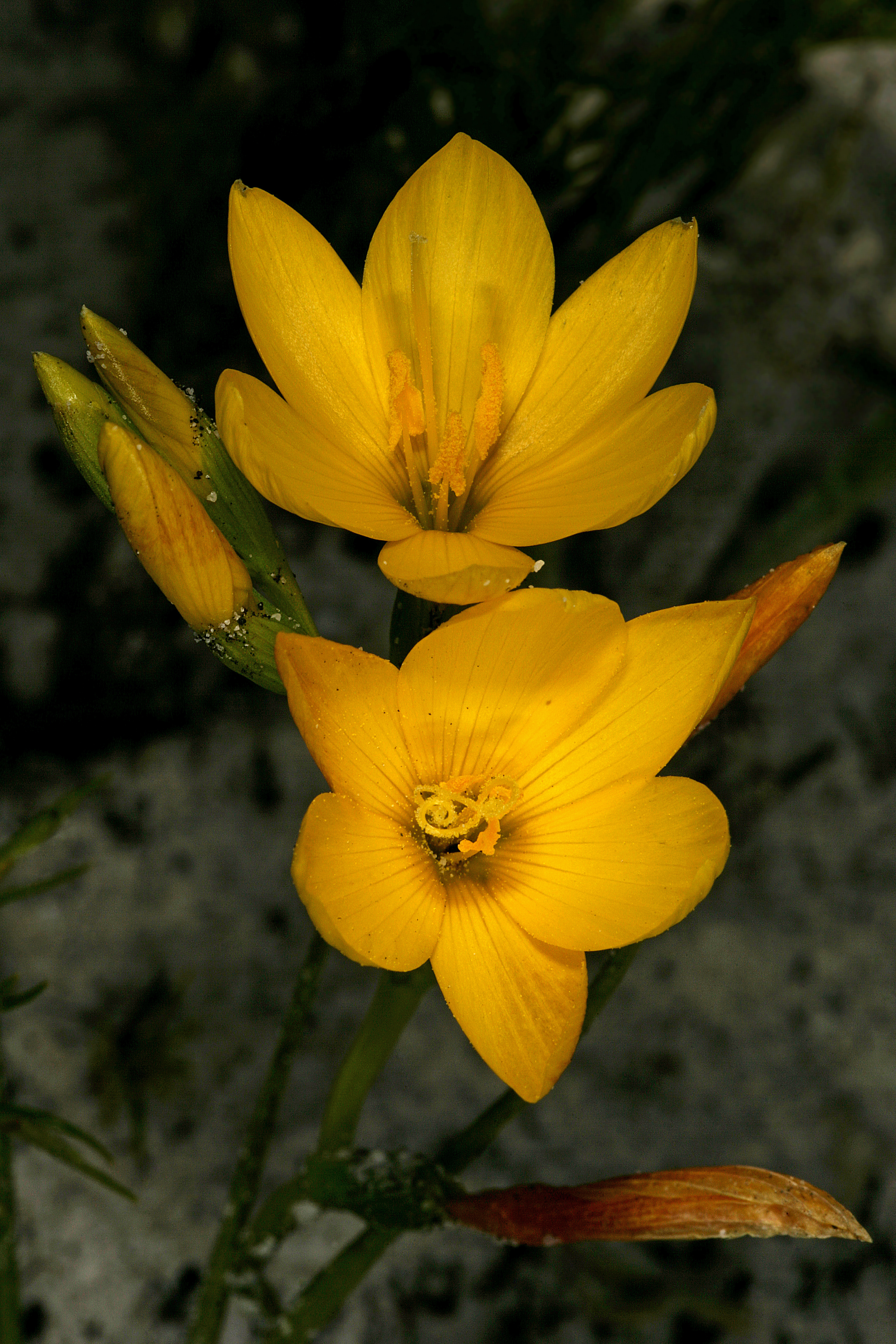 Geissorhiza humilis, flowers (note sticky bracts with adhering sand); recently burned fynbos, Slangkop Nature Reserve, Kommetjie, Western Cape, South Africa